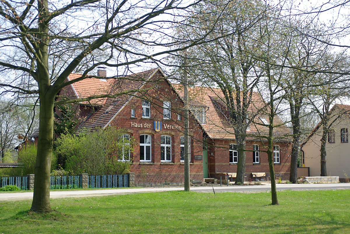 Local museum of Groß Schacksdorf, Brandenburg, Germany